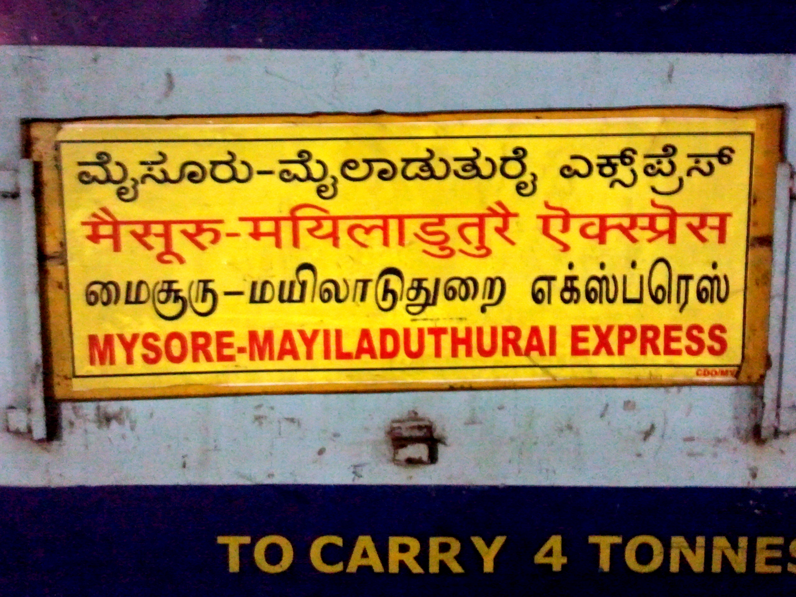 Photograph of the train name "Mysore-Mayiladuthurai Express" written in four languages - Kannada, Hindi, Tamil and English. This photograph was taken in Hosur Railway Station.